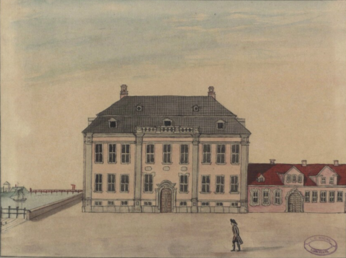 Justitzråd Borckmans Gård, Hjørnet af Ny Kongensgade og Frederiksholms Kanal